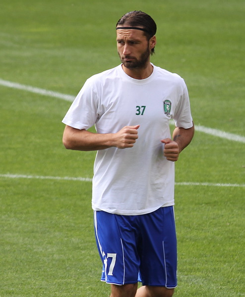 Đorđe Jokić